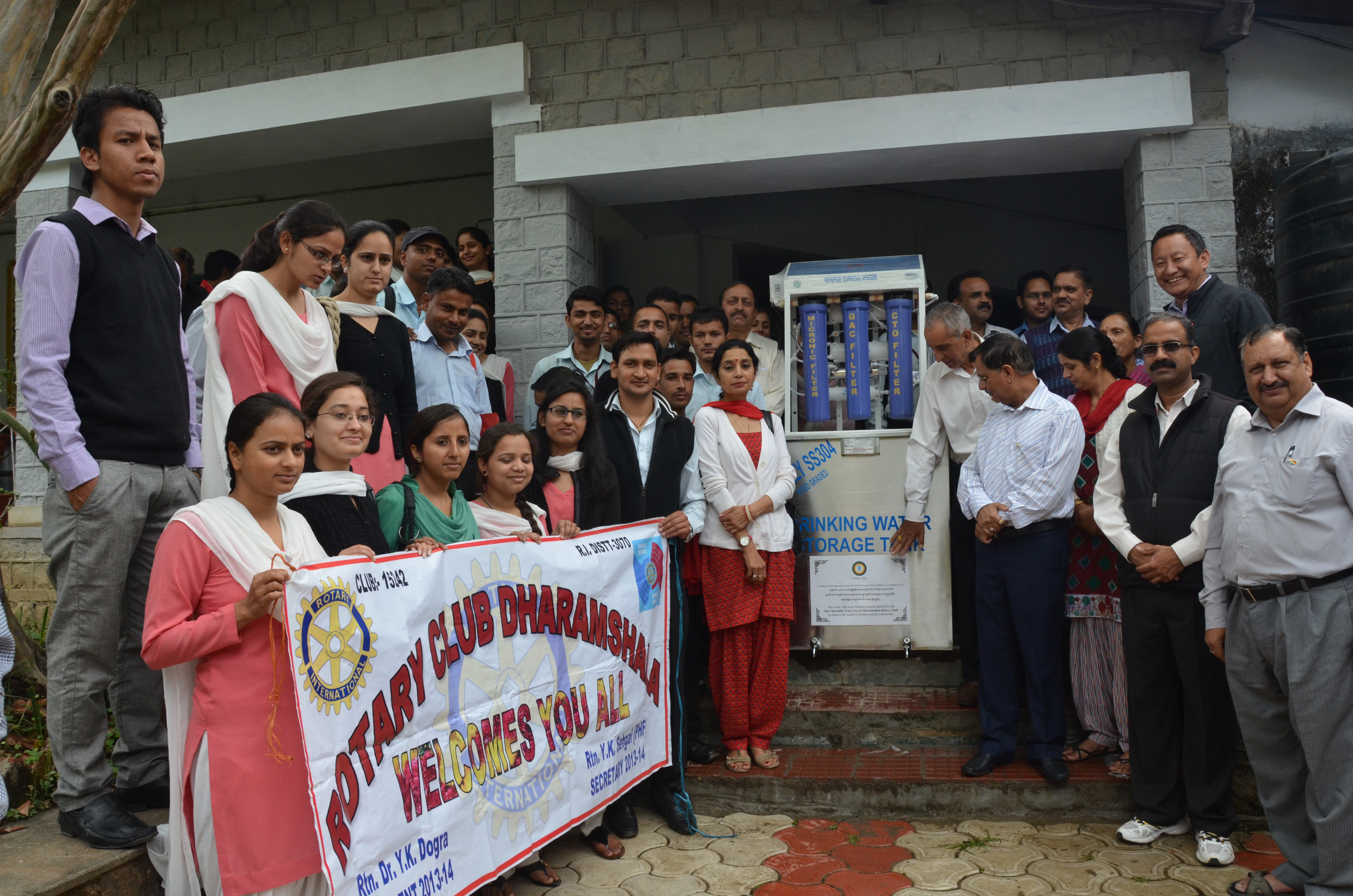 Lha Charitable Trust with the Dharamshala Rotary Club